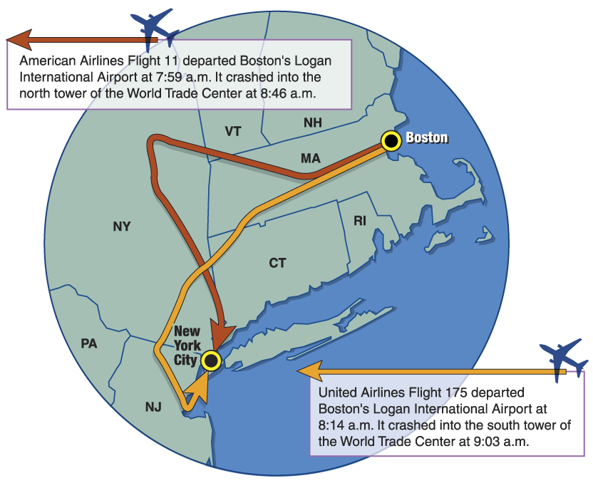 Graphic. Flight path to WTC, Sept 11, 2001.